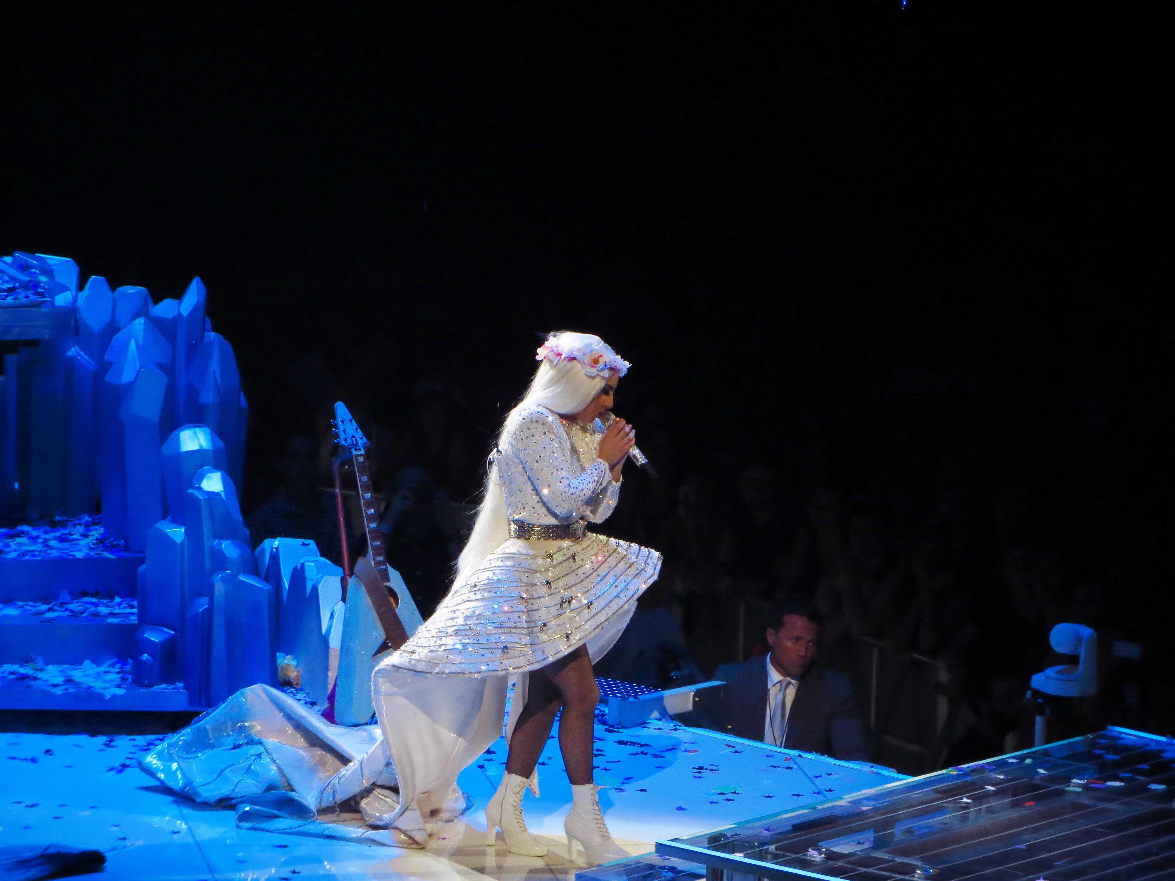 Lady Gaga, ARTPOP Ball Tour, Bell Center, Montréal, 2 July 2014 (125) Gaga performing on ArtRave: The Artpop Ball tour